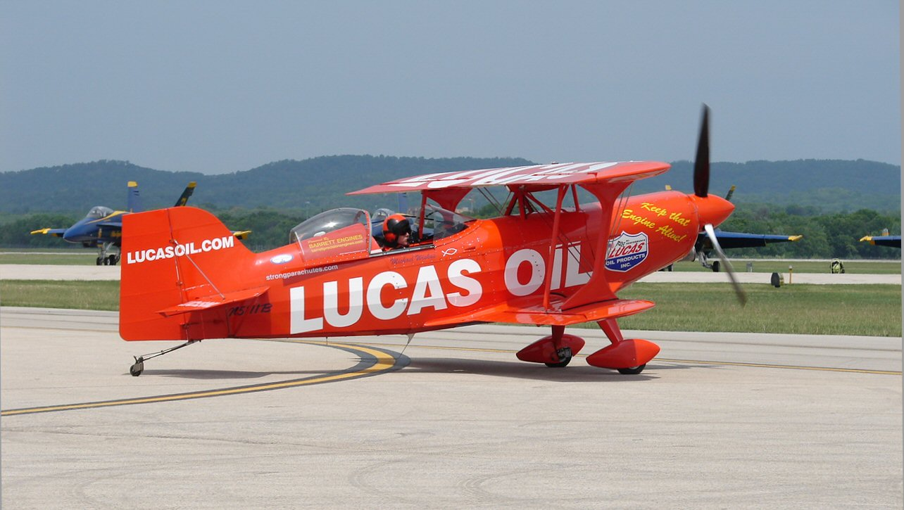 Michael Wiskus and the Pitts Special......ONE of the best Airshow performers I have ever seen!!!!!!!!!